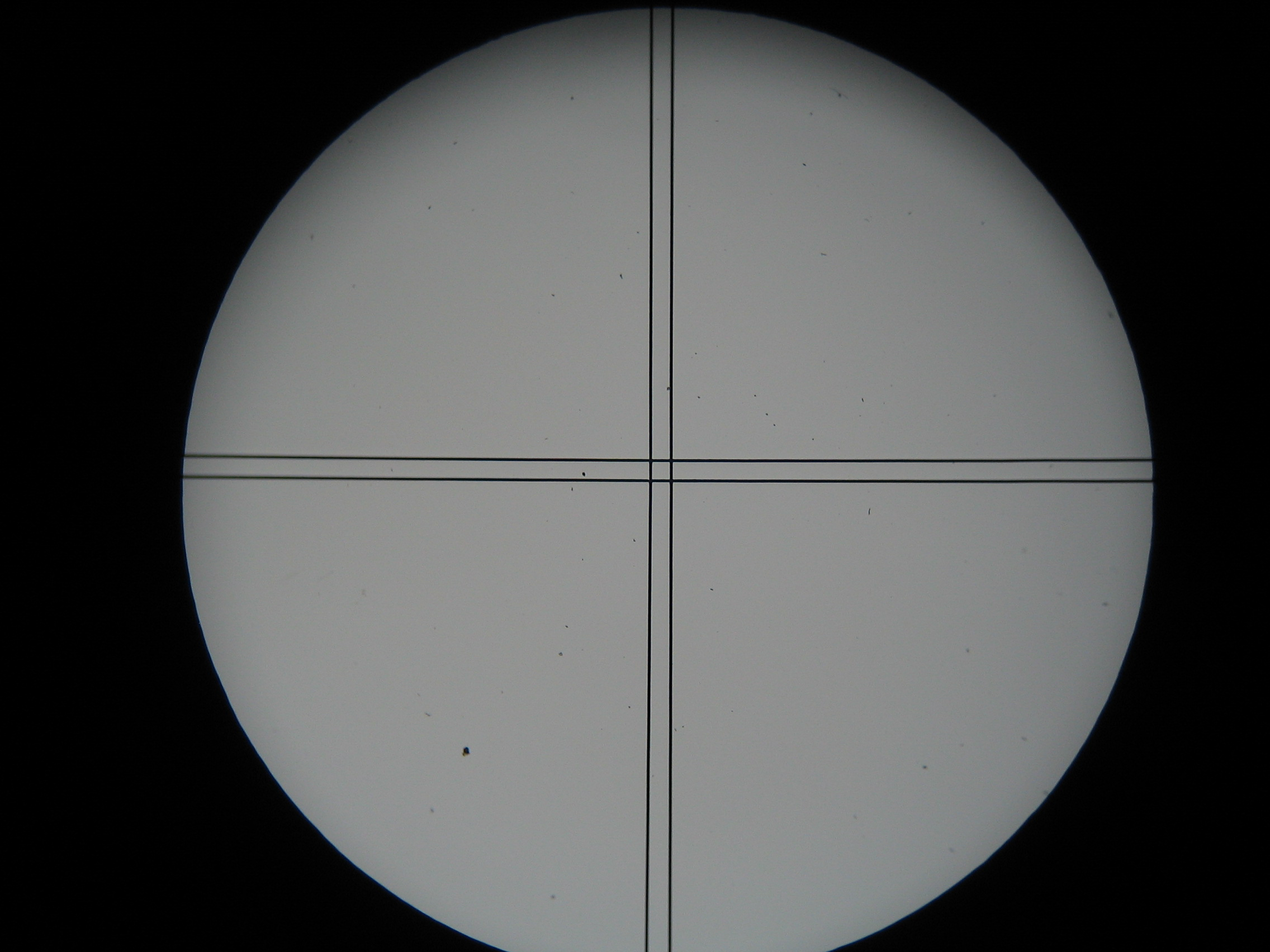 Double Crosshair in an eyepiece lens